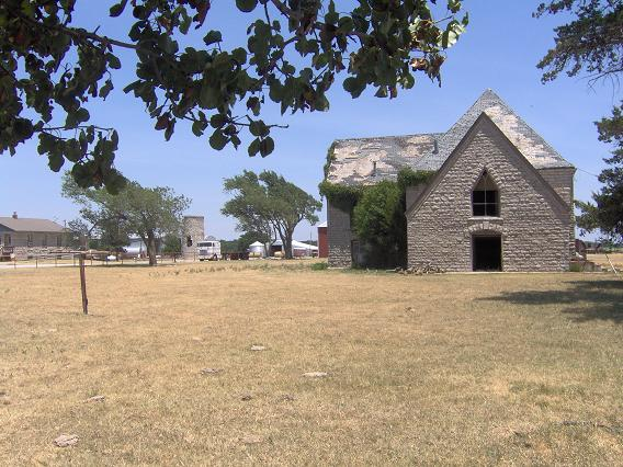 Buildings once used for the Reformed Presbyterian Church's mission to the Kiowa Nation, in far southwestern Caddo County, Oklahoma, United States. Now owned by a farmer, the property has not been used for church purposes since 1971. It lies along N. 2550 Road between 1470 and 1480 Roads, just south of the Mission Creek bridge, 1.6 miles (2.5 km) south of State Highway 19, and 5 miles (8 km) west of Apache.